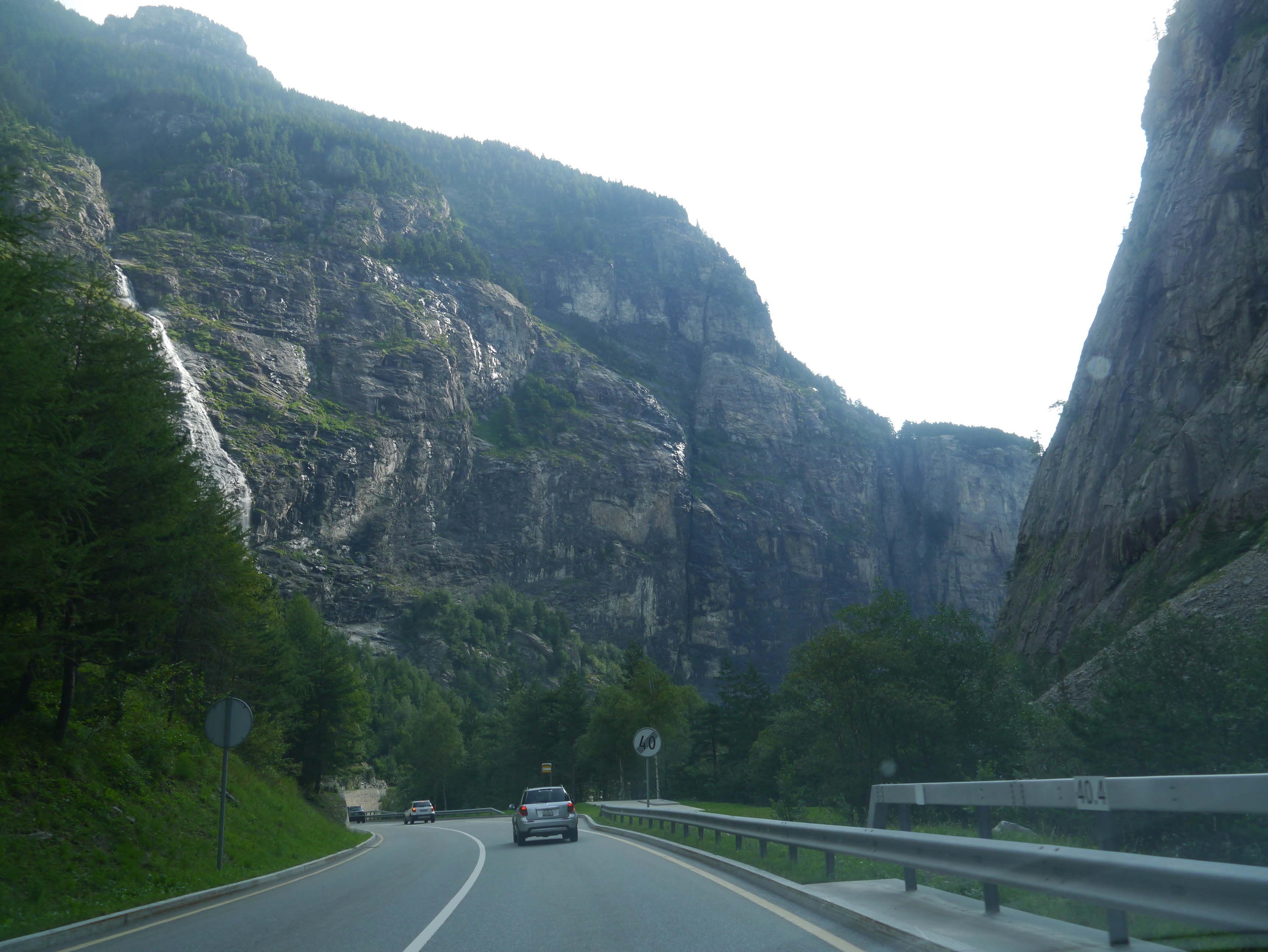 On the Simplon Pass road, Valais, Switzerland